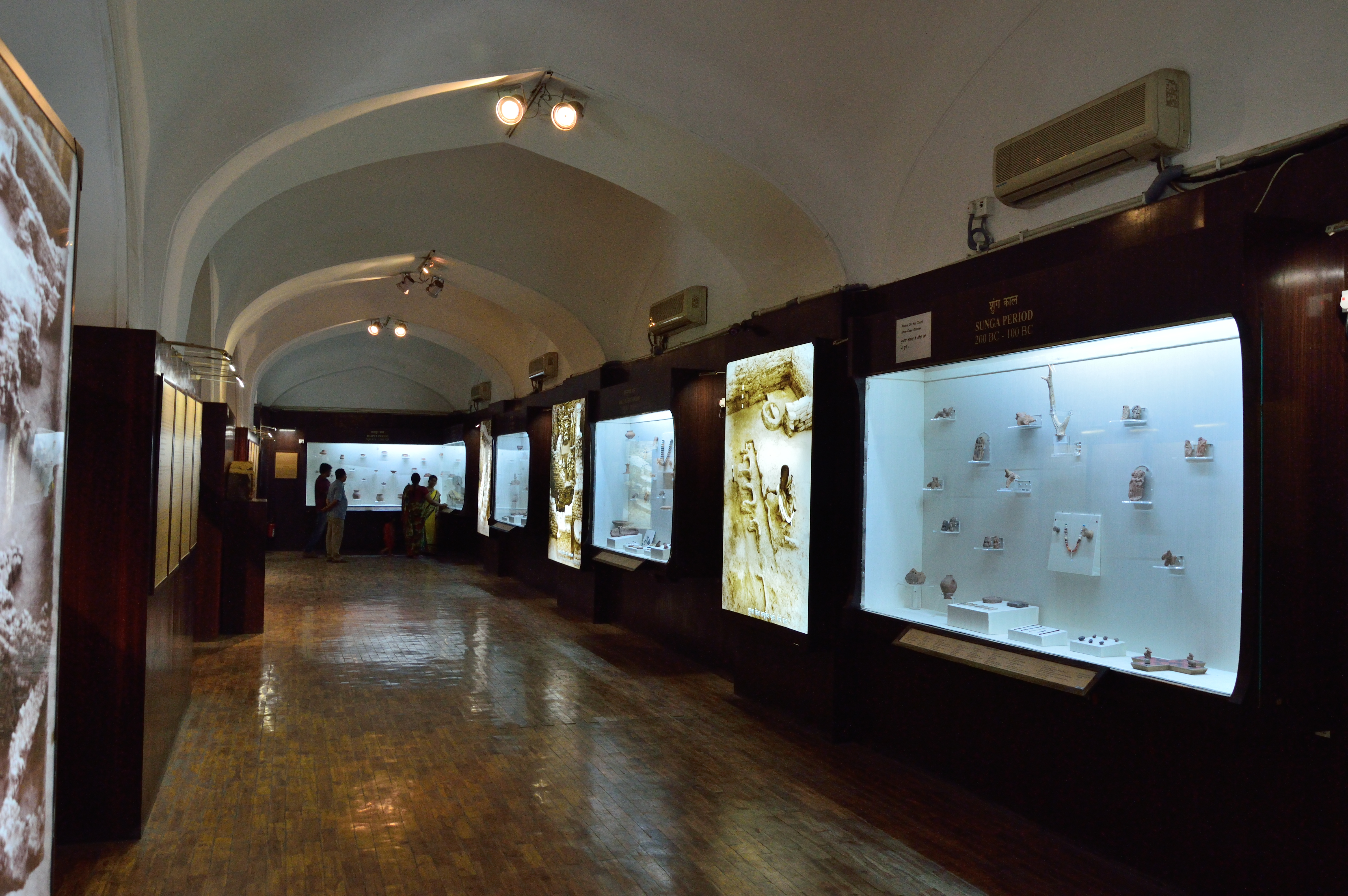 Photographed at the Old Fort or Purana Qila, New Delhi. This photograph has been uploaded during the 'Wiki Loves Monuments 2014' from India.